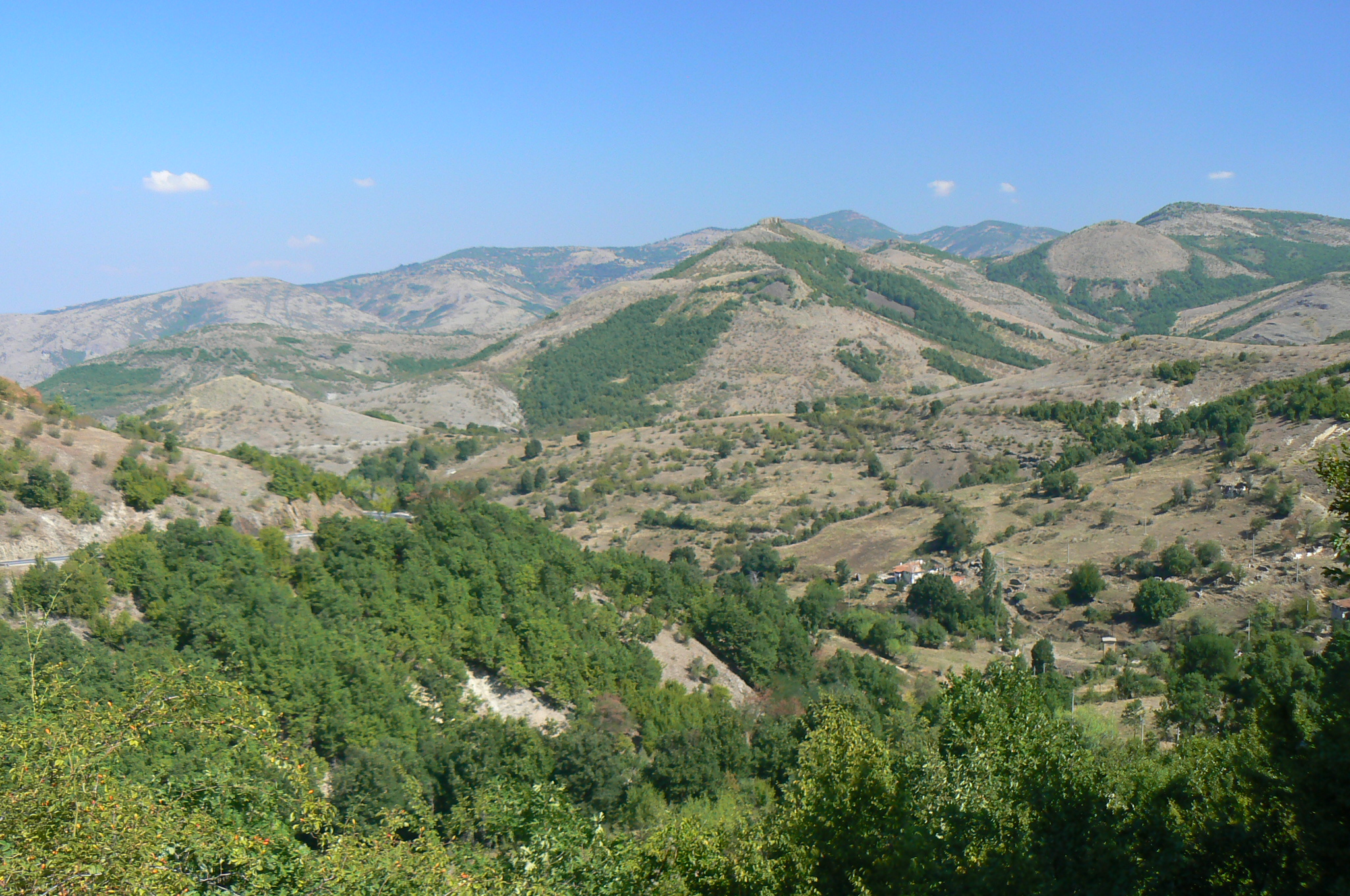 View from the eastern part of the Rhodope Mountain, on the way between Momchilgrad and Krumovgrad